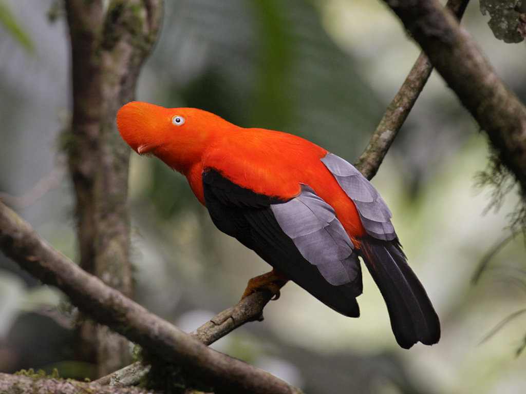 Male Rupicola peruviana, Manu Road, at 1200 m on the east slope of the Andes, SE Peru, October 2009.